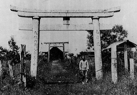 Kunashiri Shrine